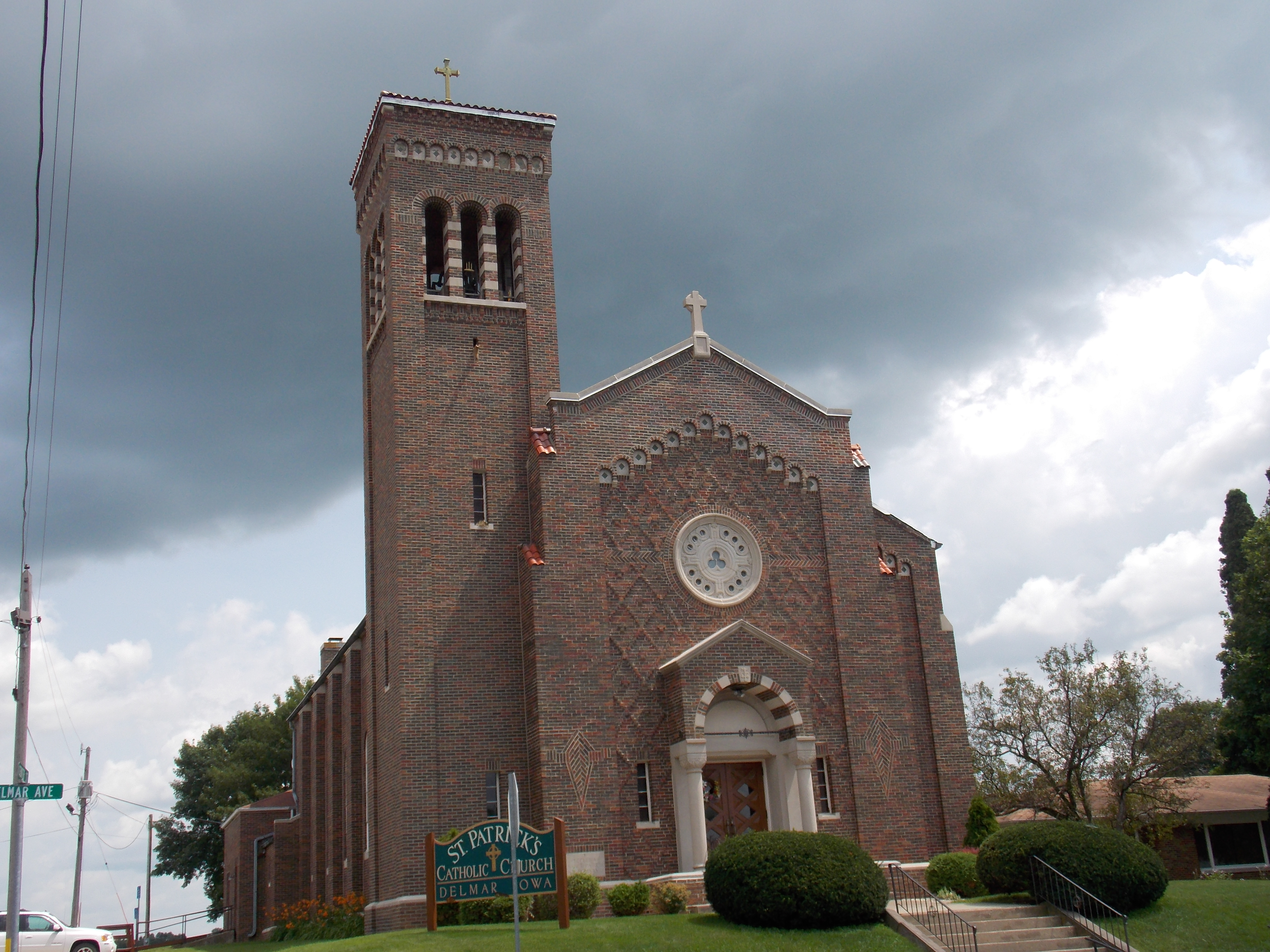 Saint Patrick Catholic Church in Delmar, Iowa.